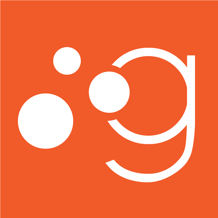 Official logo for Gemr, Inc.